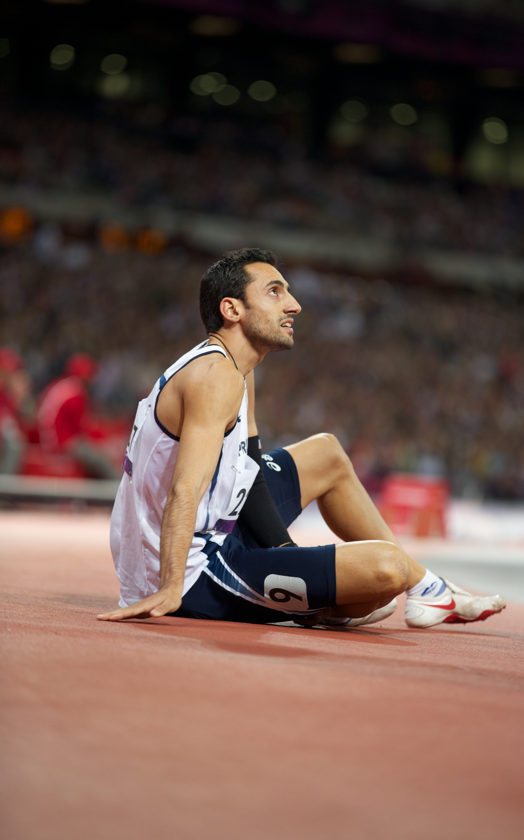 Antonis Arestis after the 400m T46 final race for the London 2012 Paralympics. Photo by Selene Alexia.